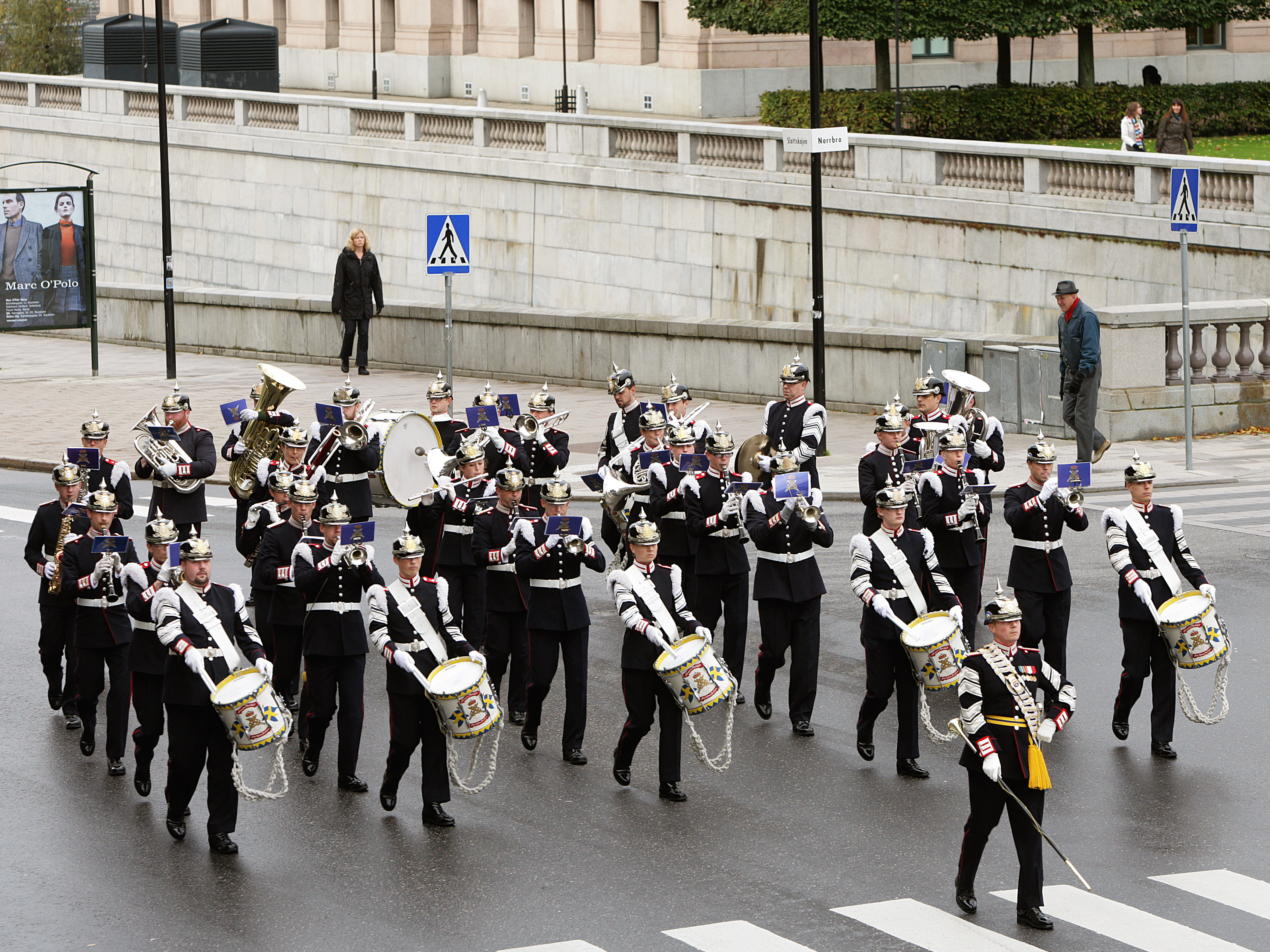 AMK Changing the King's Guards